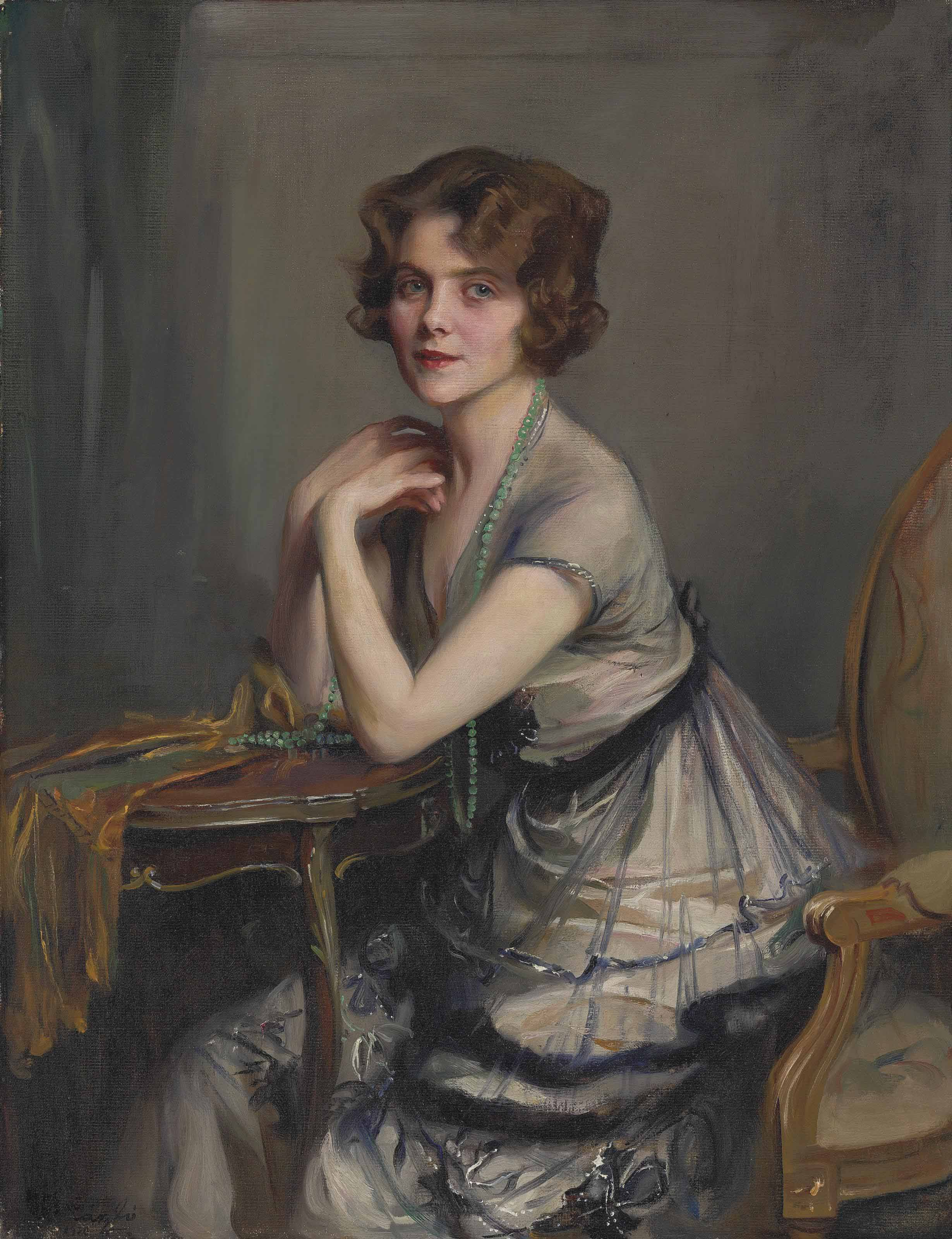 Winnie Melville, Mrs Derek Oldham oil on canvas 112.4 x 87 cm signed b.l.: de Laszlo / 1920